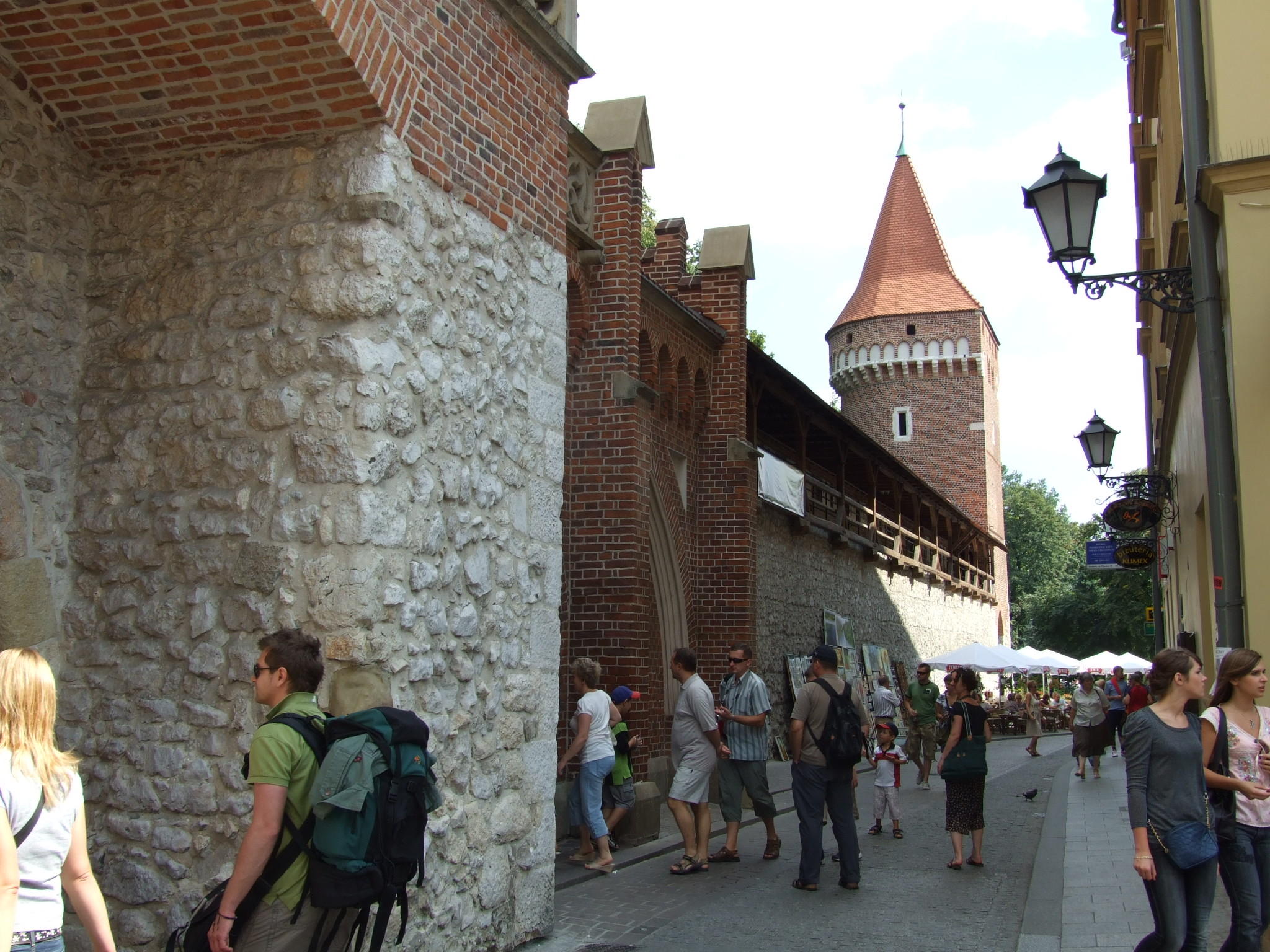 Haberdashers' Tower and Pijarska Street from Florian Gate, Kraków, Poland